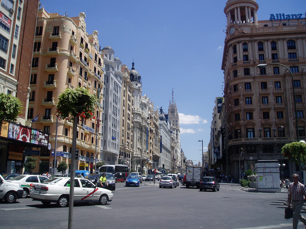 View of Gran Vía (a downtown avenue) in Madrid (Spain) from Plaza del Callao (square).